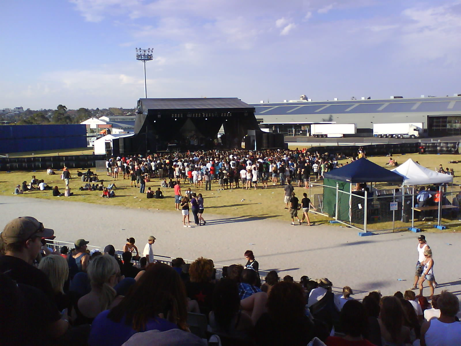 American band Chiodos performing at Soundwave festival in Melbourne, Australia in 2009.